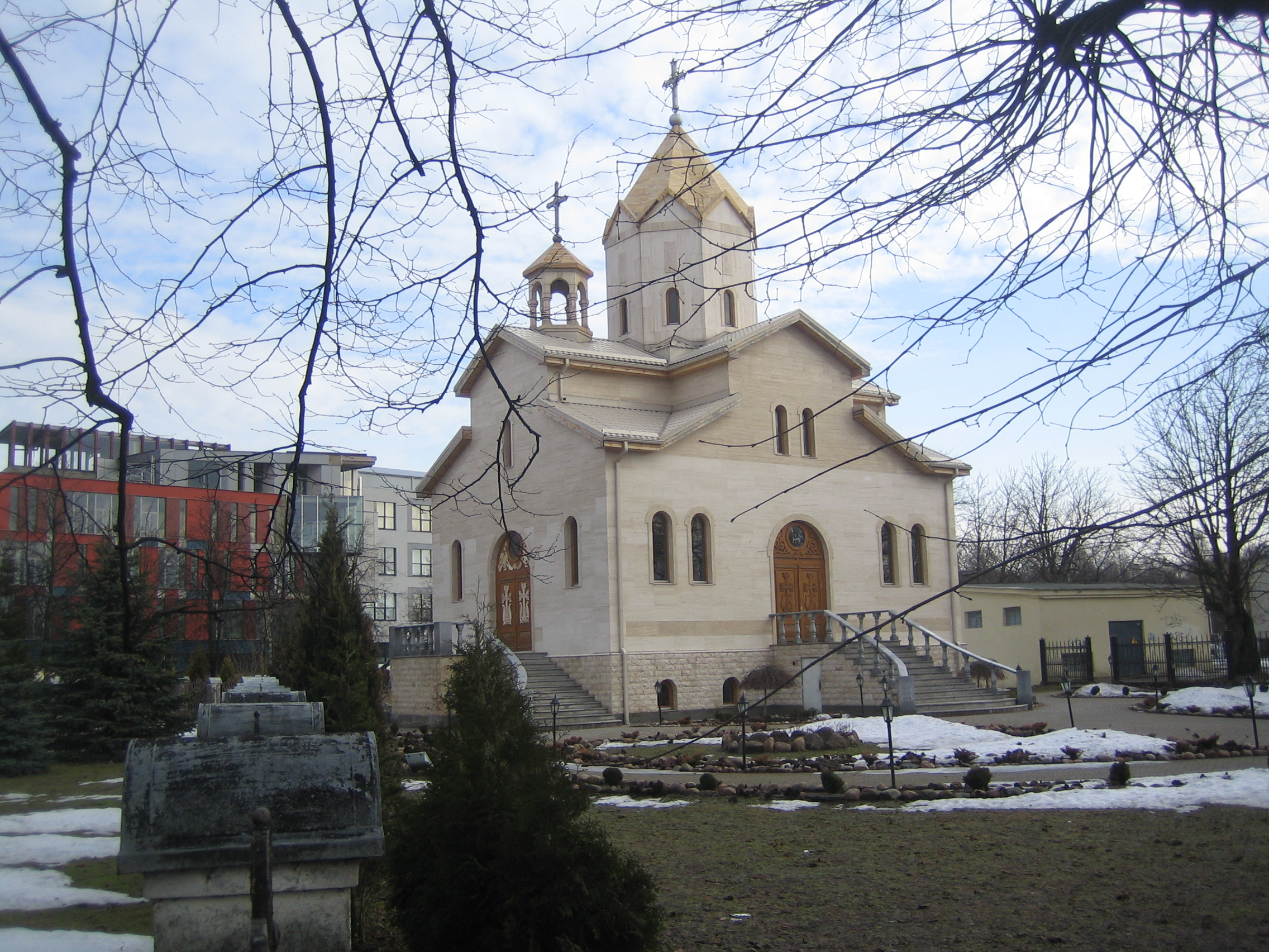 Saint Gregory the Illuminator Armenian church in Riga, Latvia